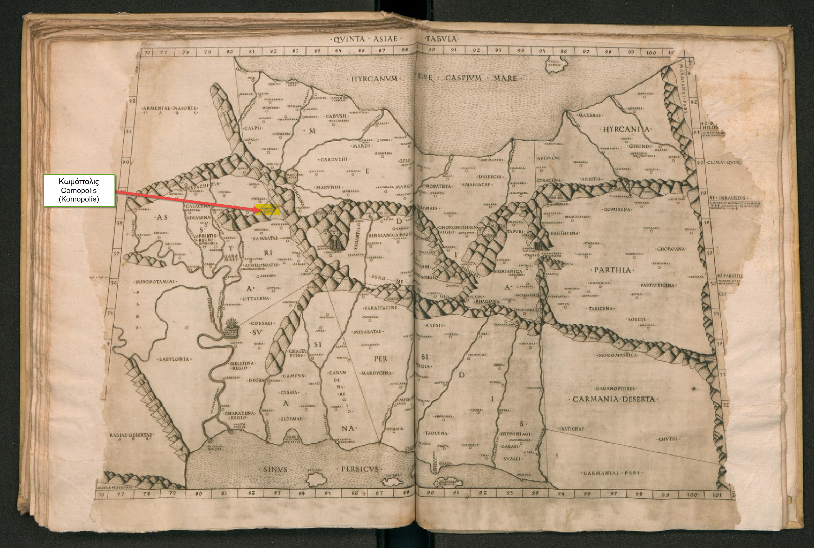 The Fifth Map of Asia (Quinta Asiae Tabula), depicting most of Persia (Assyria, Media, Susiana, Persidis, Hyrcania, Parthia, and Carmania Deserta), from the edition of Ptolemy's Geography (Cosmographia) printed at Rome